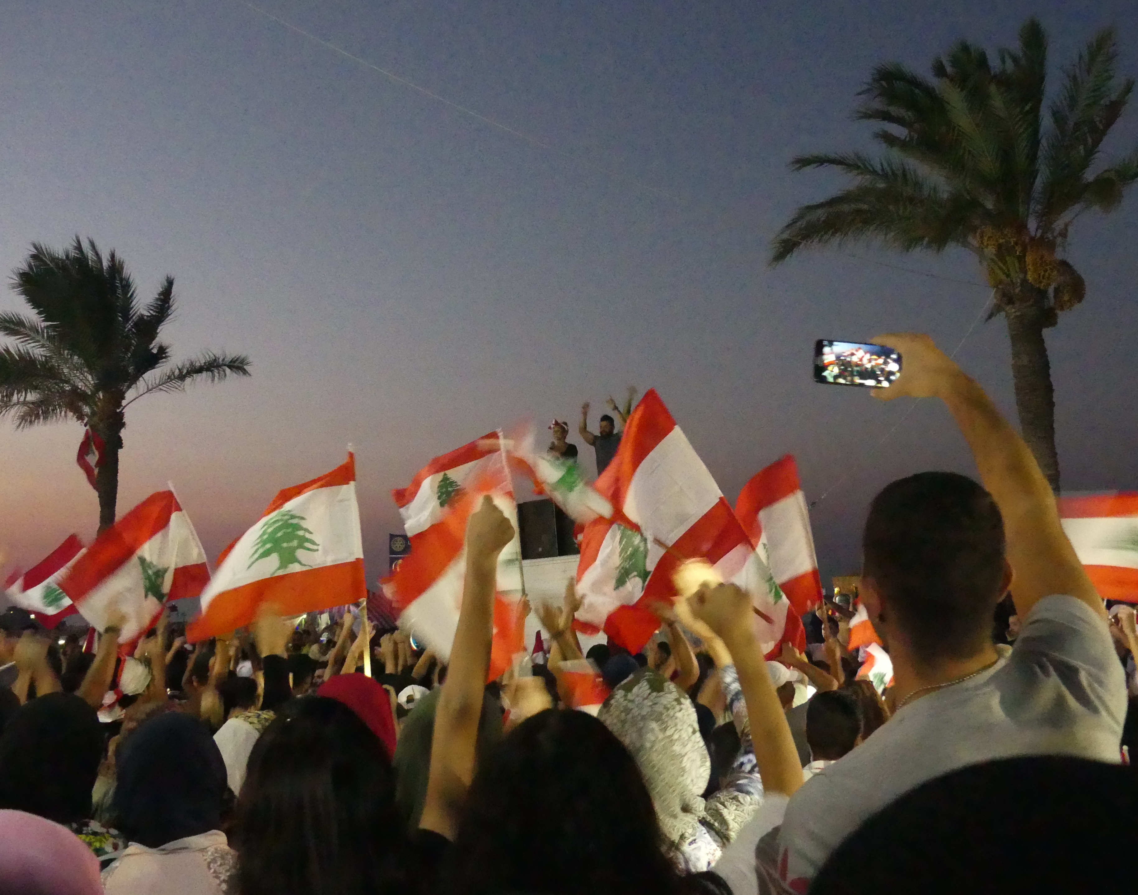 Protestors in Tyre/Sour, Southern Lebanon, cheering to a female singer during nonsectarian demonstrations against government corruption and austerity measures that started across the country on October 17th, 2019. Elissar Square as the venue features the highest flagpole of Lebanon (32.6 meters) with a national flag of 11 X 19 meters.